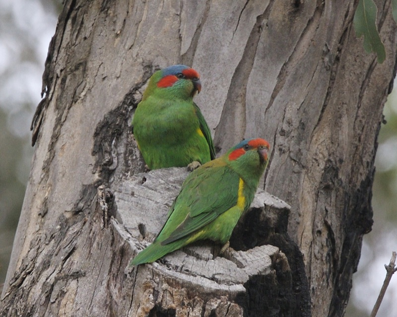 Musk Lorikeet (Glossopsitta concinna). A pair at Brisbane Ranges, Victoria, Australia.